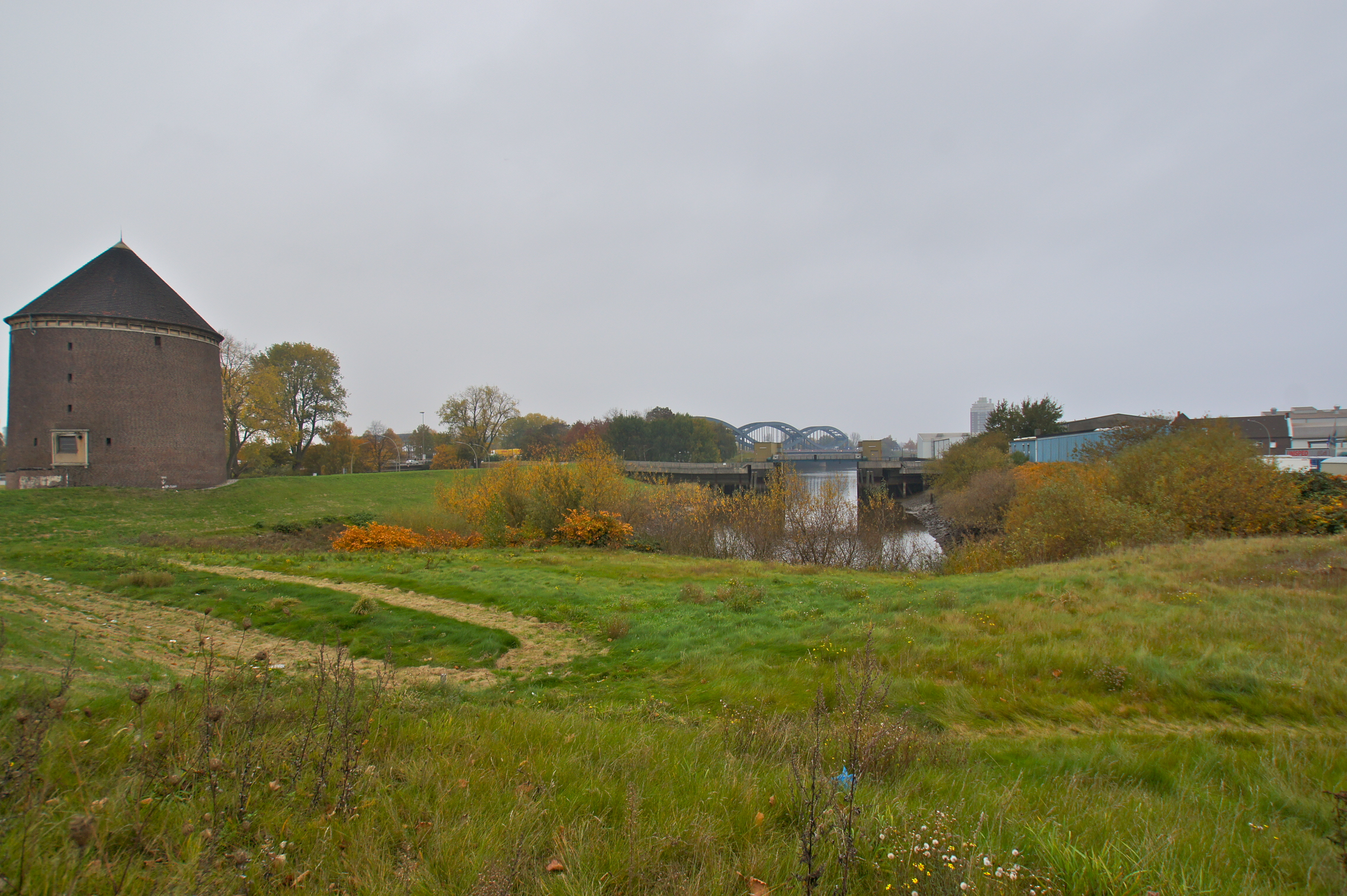 Hamburg (Veddel), Germany: Zombeck-Bunker and new bridge over the Elbe as seen from the Marktkanal